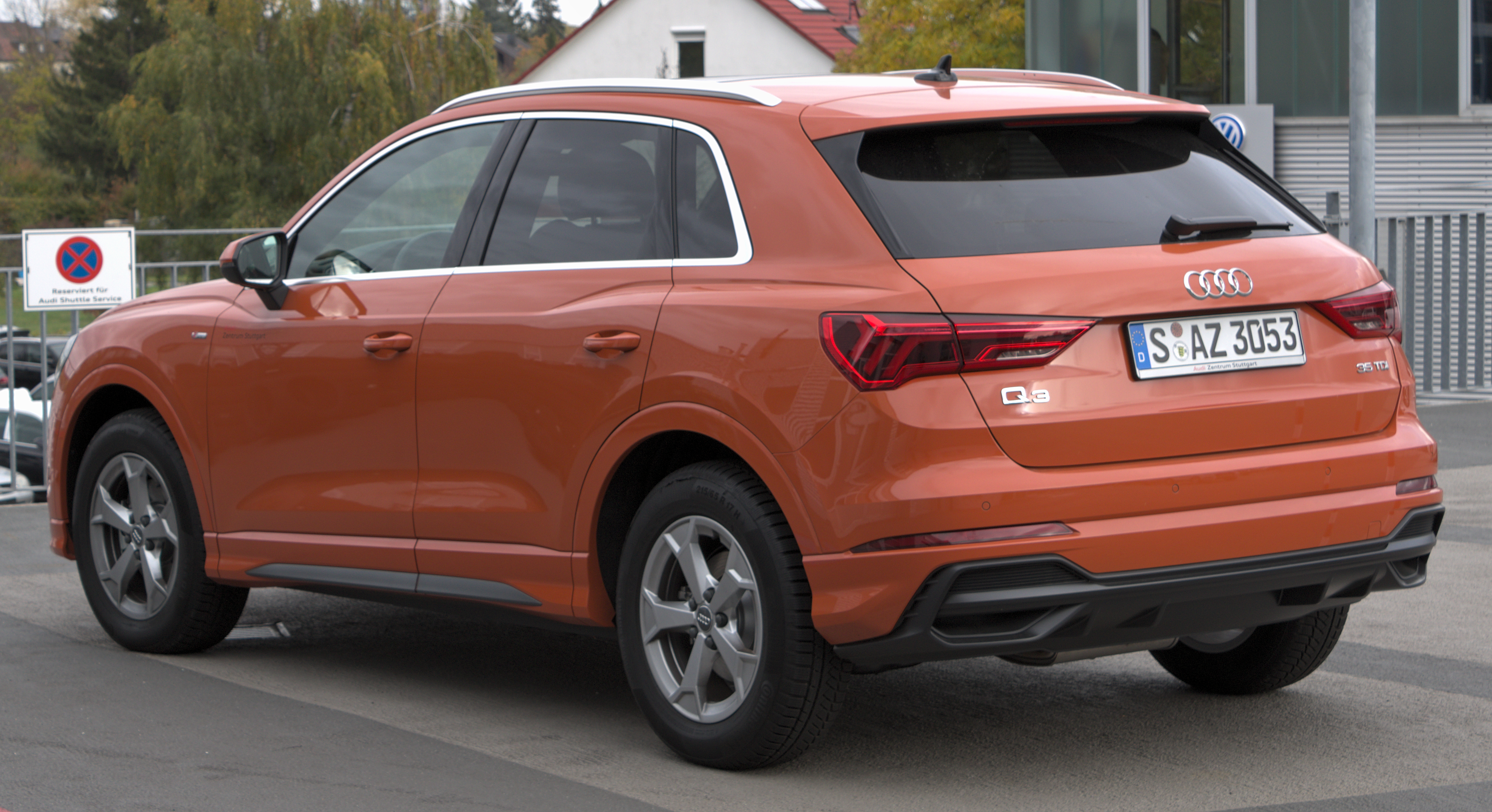 Audi_Q3_F3 in Stuttgart-Vaihingen